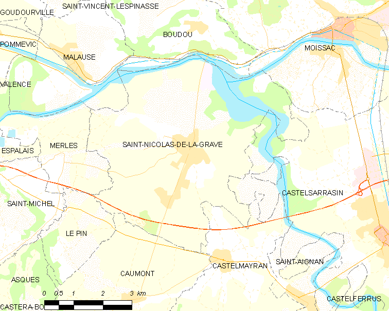 Map of French municipality Saint-Nicolas-de-la-Grave